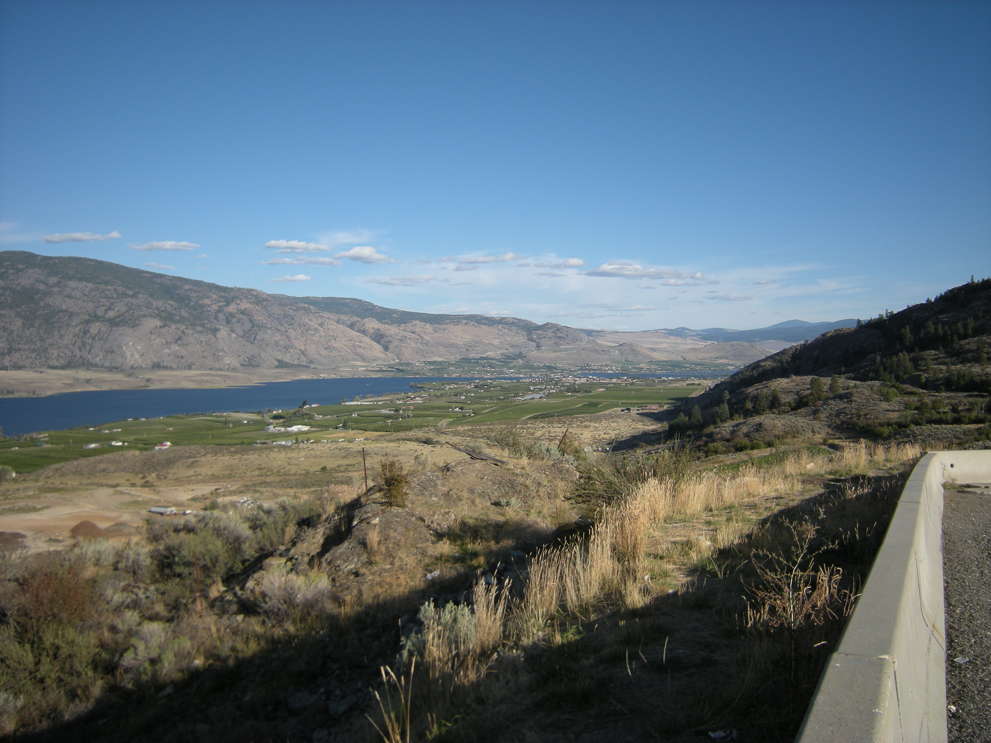 Looking southeast at Lake Osoyoos, just north of the U.S.-Canada border in the Okanagan valley.